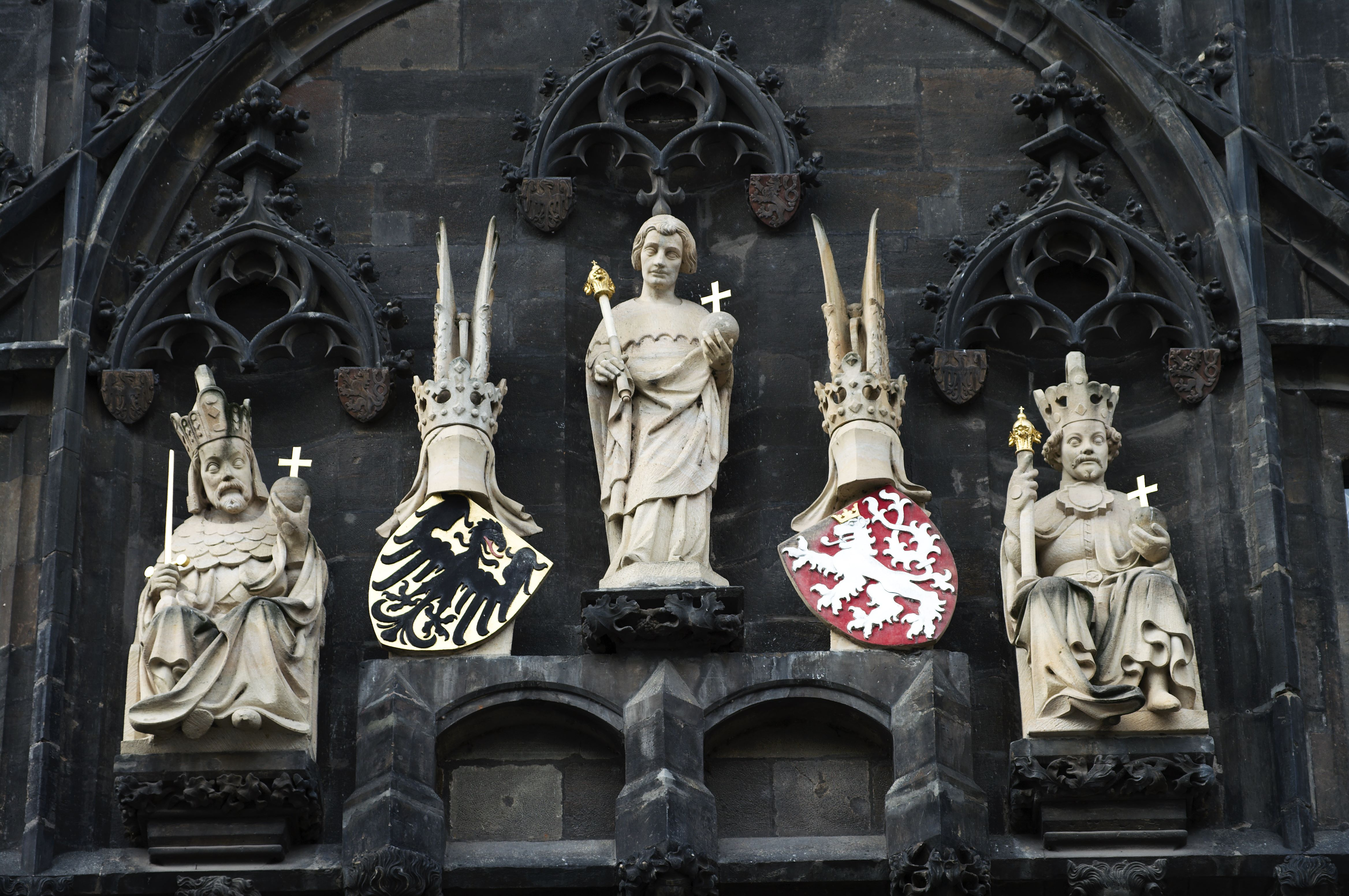 Statues on Old Town Bridge Tower